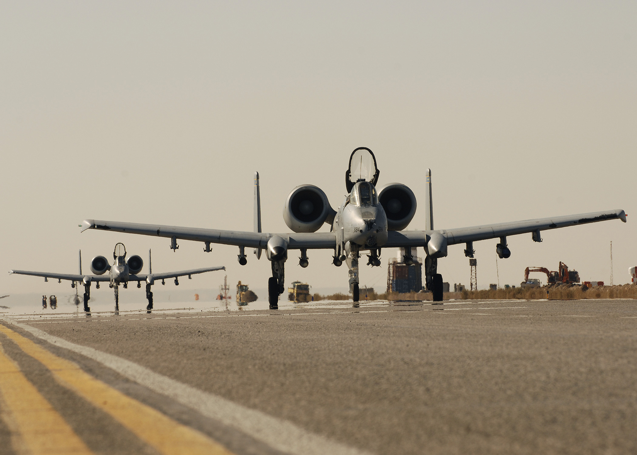 Two U.S. Air Force A-10C Thunderbolt II aircraft from the 354th Expeditionary Fighter Squadron taxi at Kandahar Airfield, Afghanistan, on Jan. 1, 2010. Airmen from the 354th Expeditionary Fighter Squadron have logged more than 10,000 flight hours and 2,500 sorties during their six-month tour in Afghanistan.